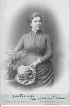 Chemist and educator